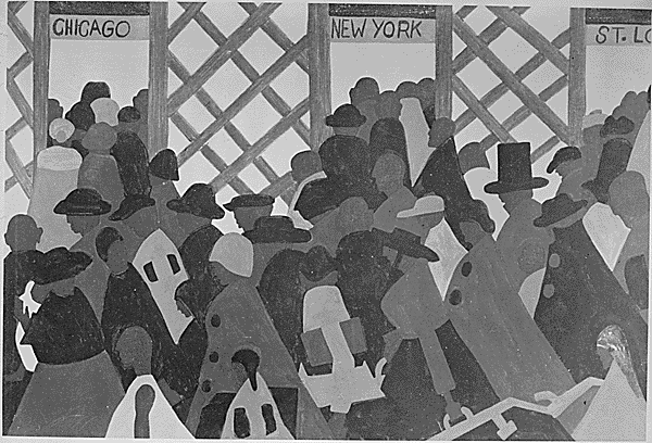 Painting "During World War I there was a great migration north by southern Negroes". Panel 1 from Migration of the Negro, 1940-1.[1]